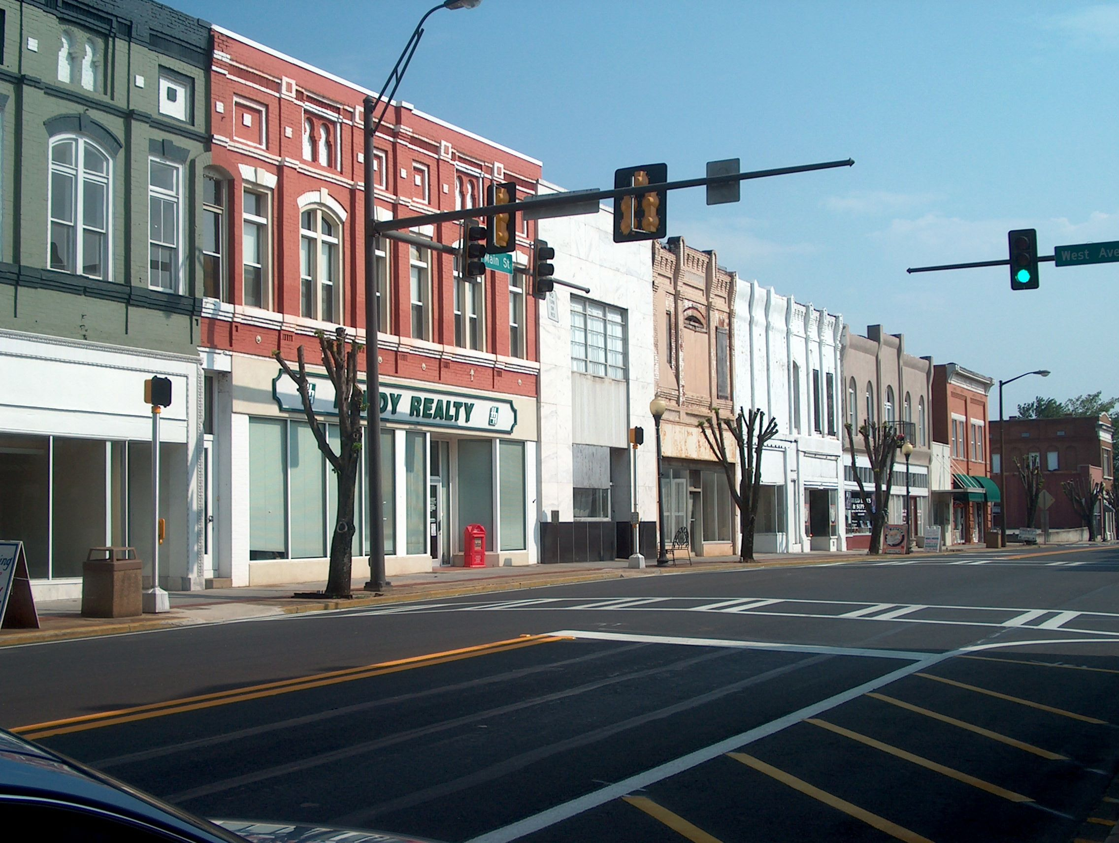 Downtown Cedartown taken by Cculber007 on September 1, 2007